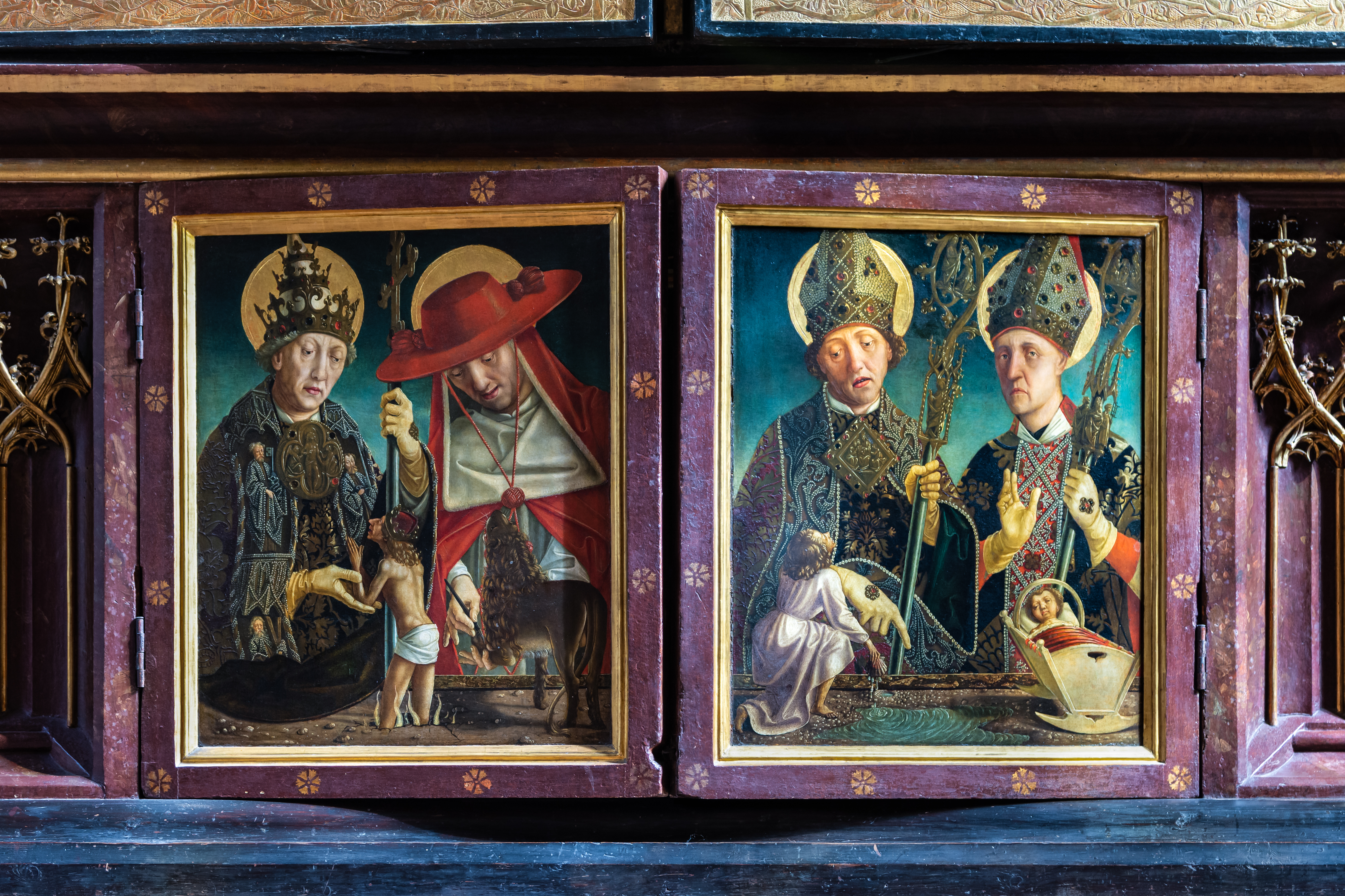 The four Latin Church Fathers at the closed wings of the Predella of St. Wolfgang Altarpiece, Catholic parish- and pilgrimage church St. Wolfgang im Salzkammergut, Upper Austria. Michael Pacher, 1471–79, set up in 1481.